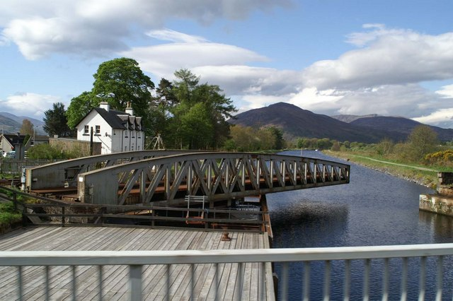 Banavie railway swing bridge - swinging Taken from the road bridge, which has itself just swung back after the passage of the yacht in the distance.